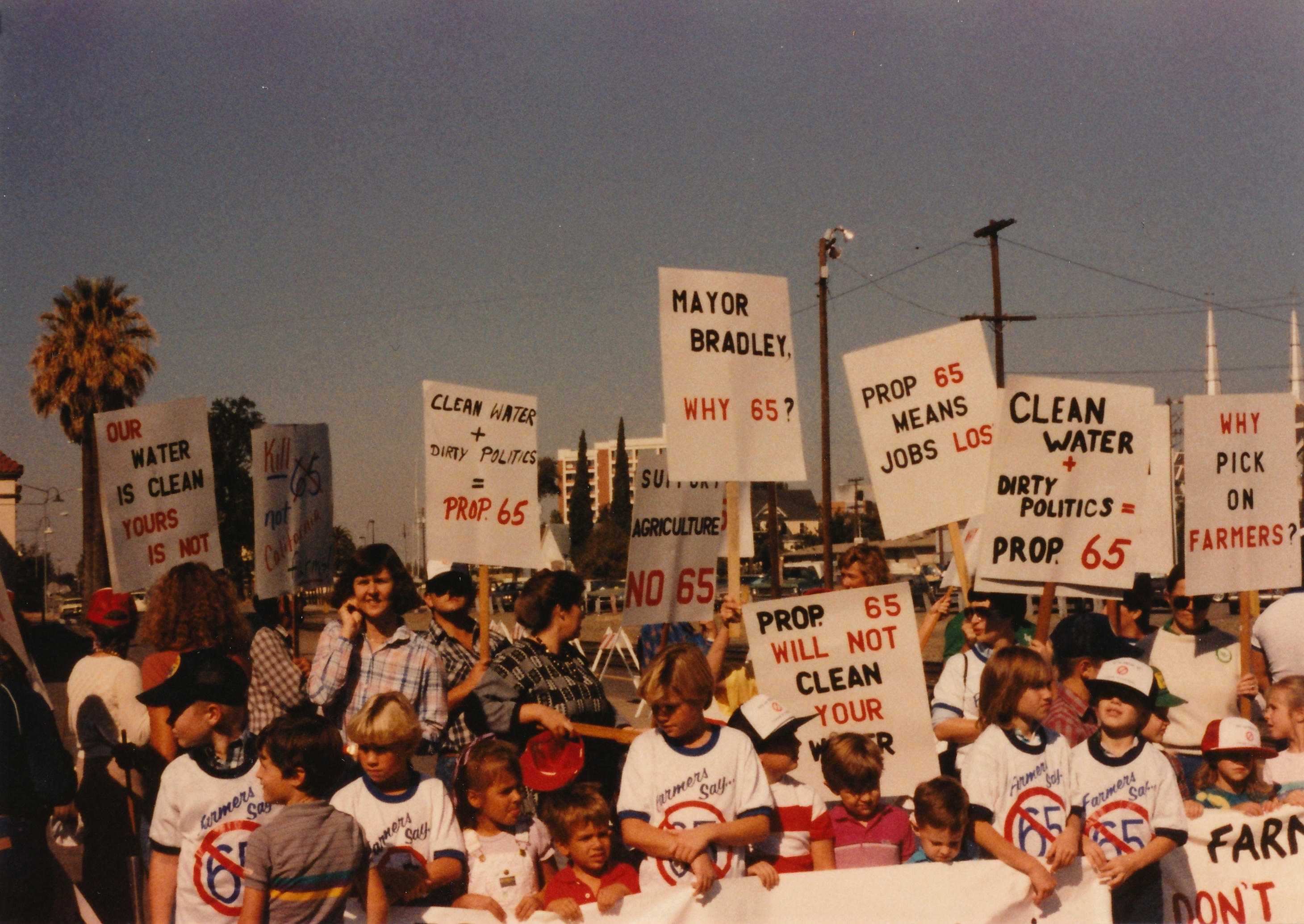 Wod-o-Pics-3_0065 - Kodalux Processing Services NOV. 89 P - Bradley for Gov campaign whistle-stop - mobbed by Ag supporters against clean water prop that passed in 1986